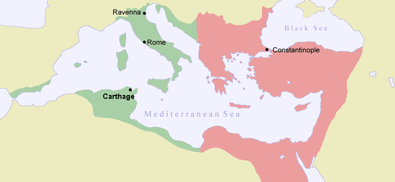 Map of Byzantine Empire ca 550. Green indicates the conquests during Justinianus I:s reign.